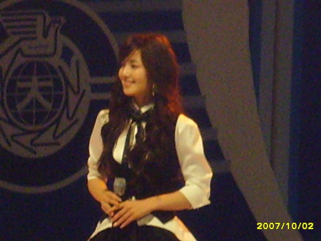 Nam Gyu-ri performing at Changwon National University.